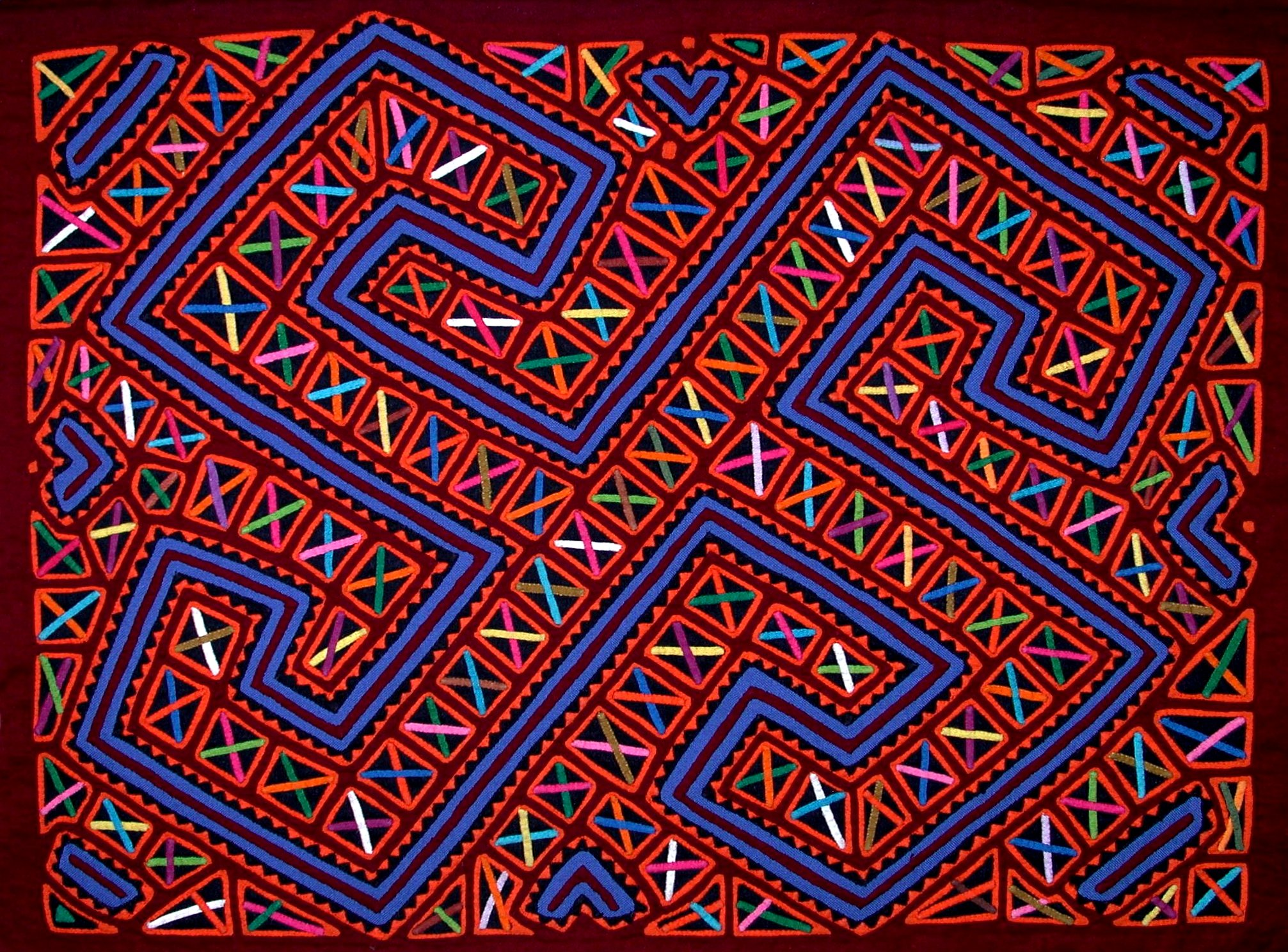 A mola made in the San Blas Islands of Panama by master mola maker Venancio Restrepo. The style is traditional, but the design is based on the Kuna flag. The mola was purchased in 2004 from Restrepo in the San Blas Islands, while Restrepo was visiting anchored yachts in a dug-out canoe to sell his wares to visiting boaters.[1] Picture by S/V Moonrise.